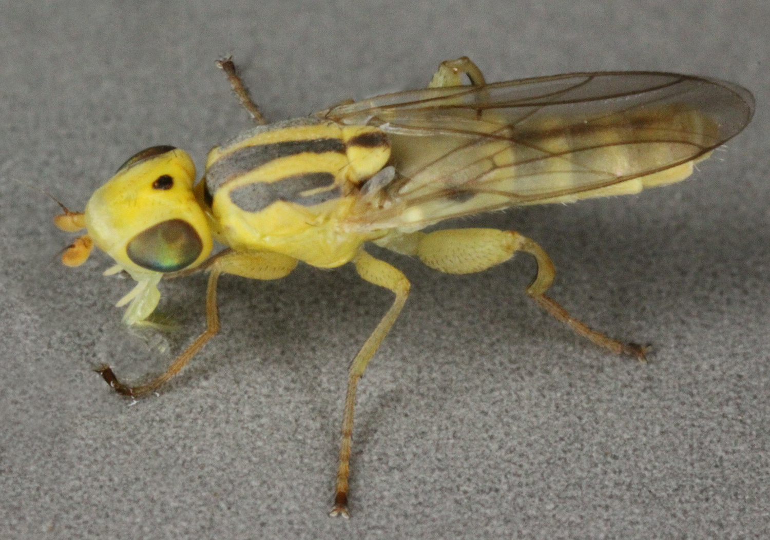 Meromyza pratorum, Dinle, North Wales, July 2013